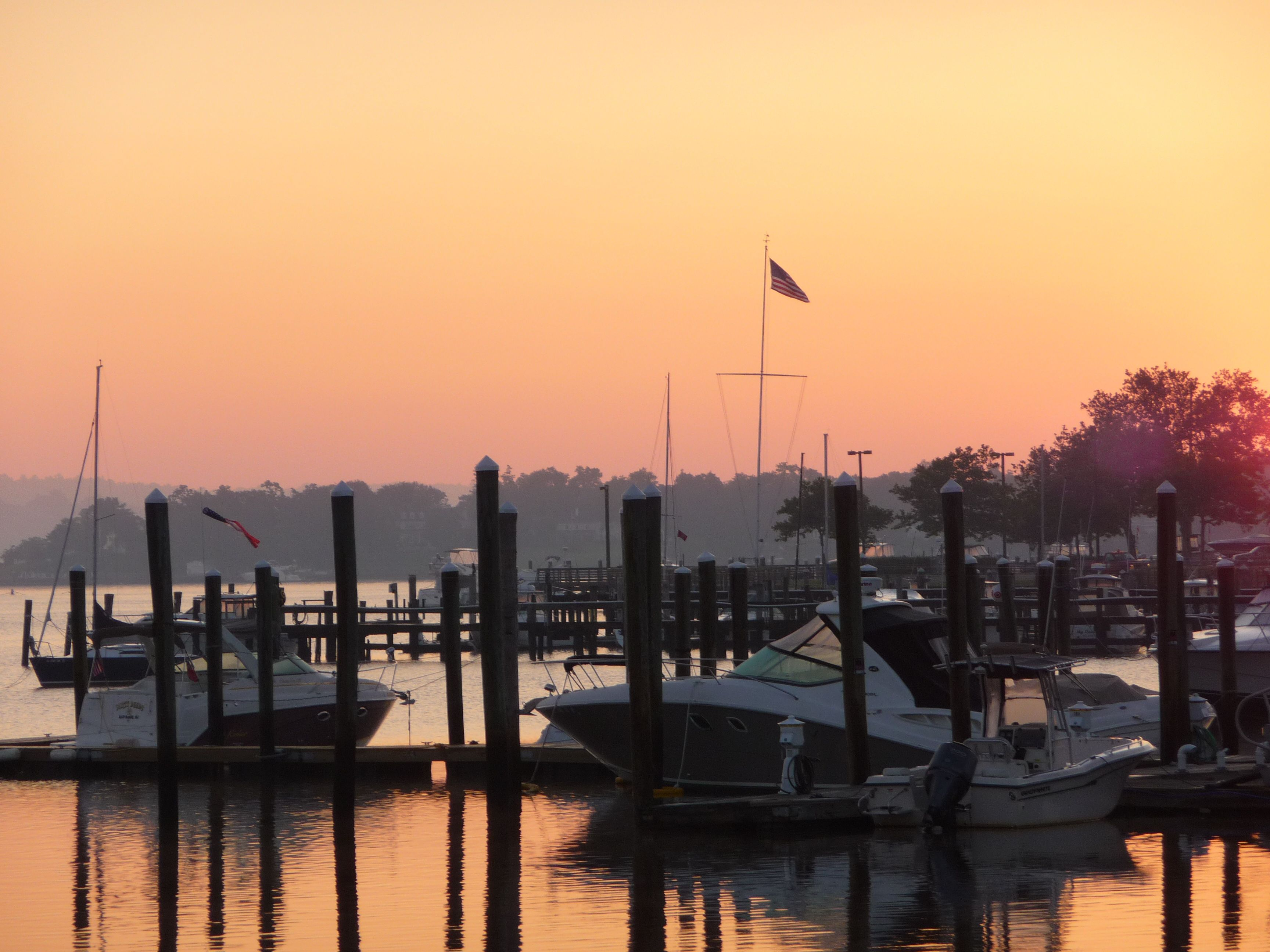 Navesink River, view of Monmouth Boat Club from the foot of Maple Avenue